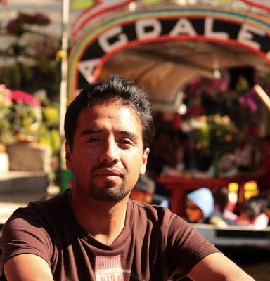 Filmmaker Carlos Hernández Vázquez